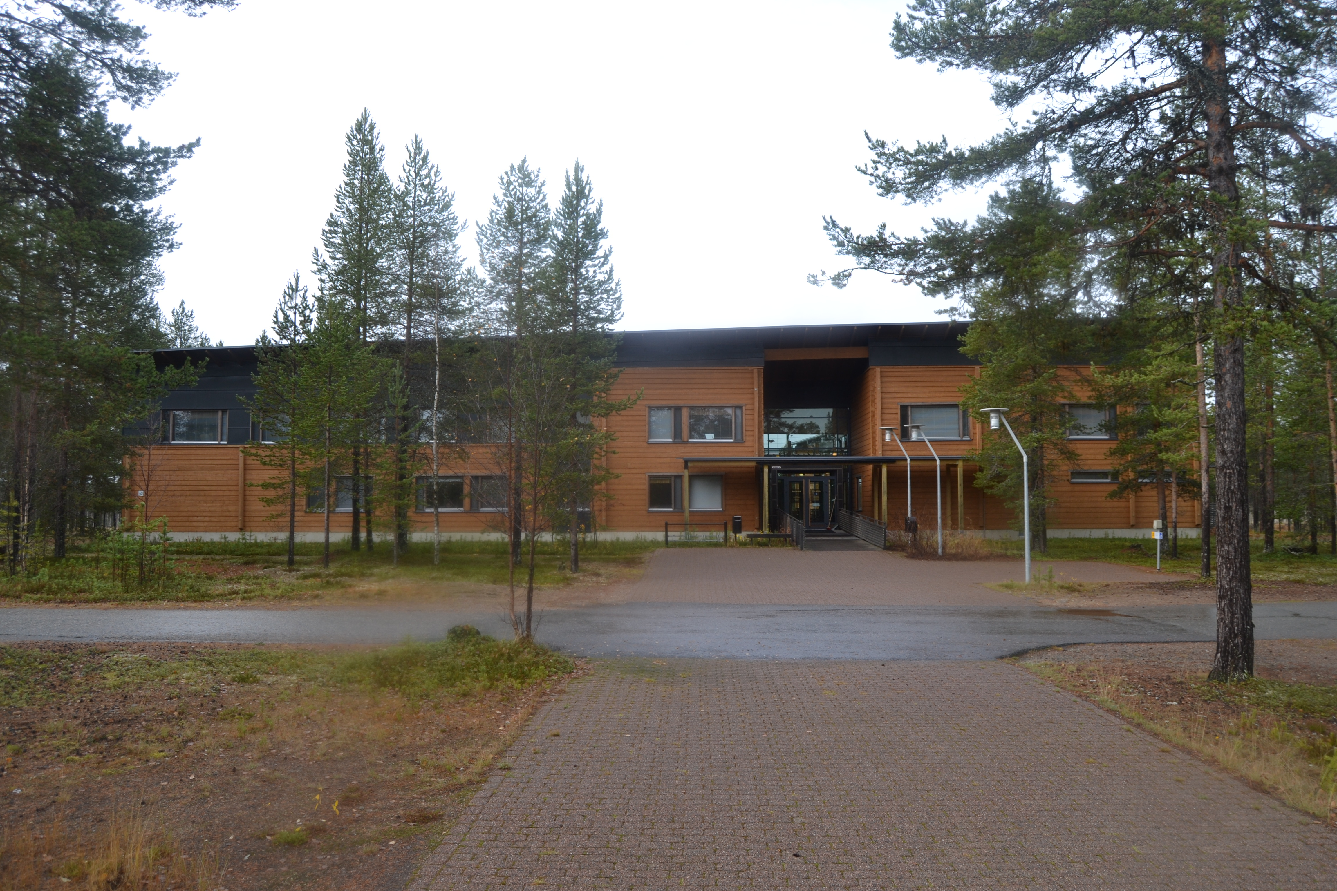 Main building of Sodankylä Geophysical observatory and Arctic Research Centre of Finnish Meteorological Institute